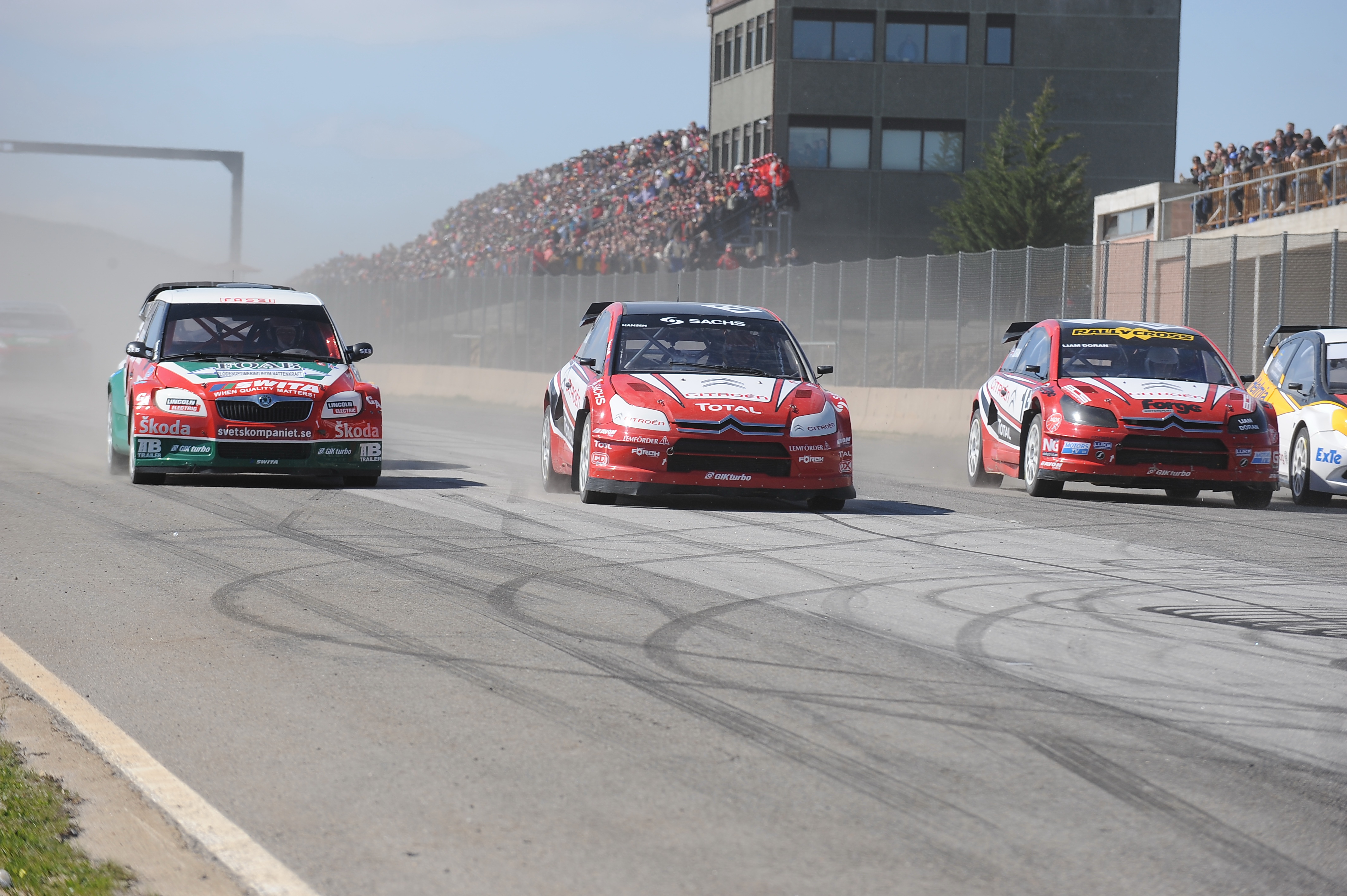 The Division 1 A-Final line-up of Round 1 of the 2010 FIA European Rallycross Championship at Circuito de Montalegre, Portugal. From left to right: Michael Jernberg, Kenneth Hansen, Liam Doran and Stig-Olov Walfridson.